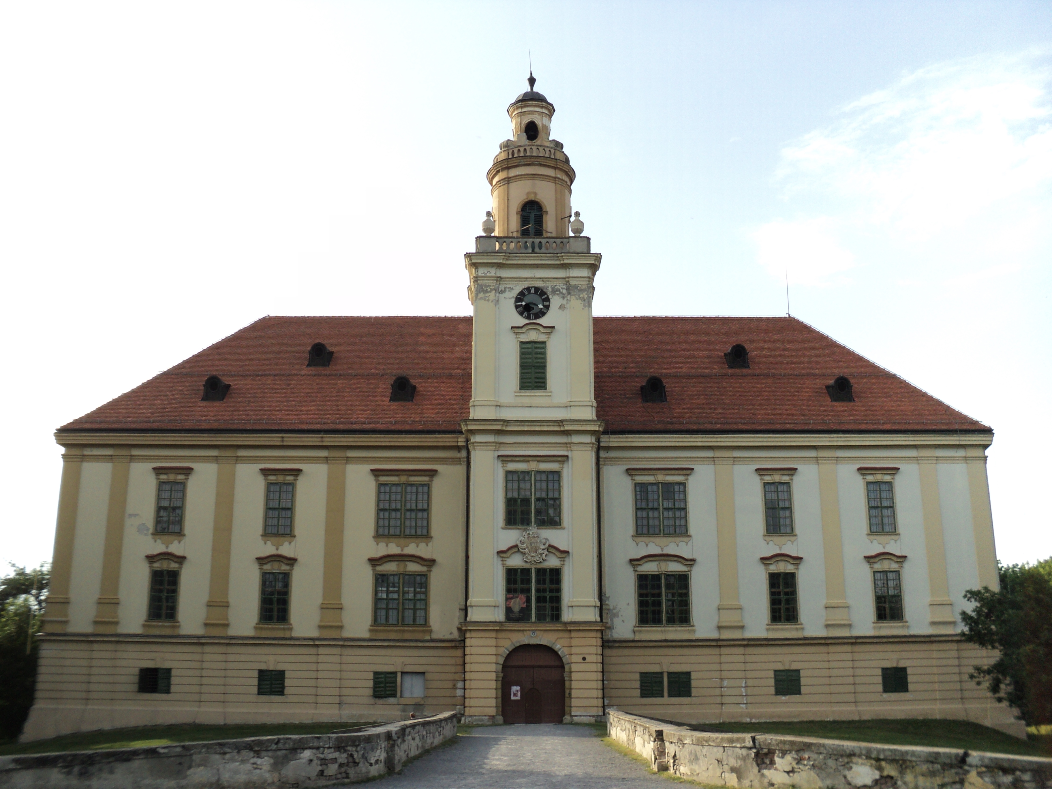 Normann-Prandau castle in Valpovo.